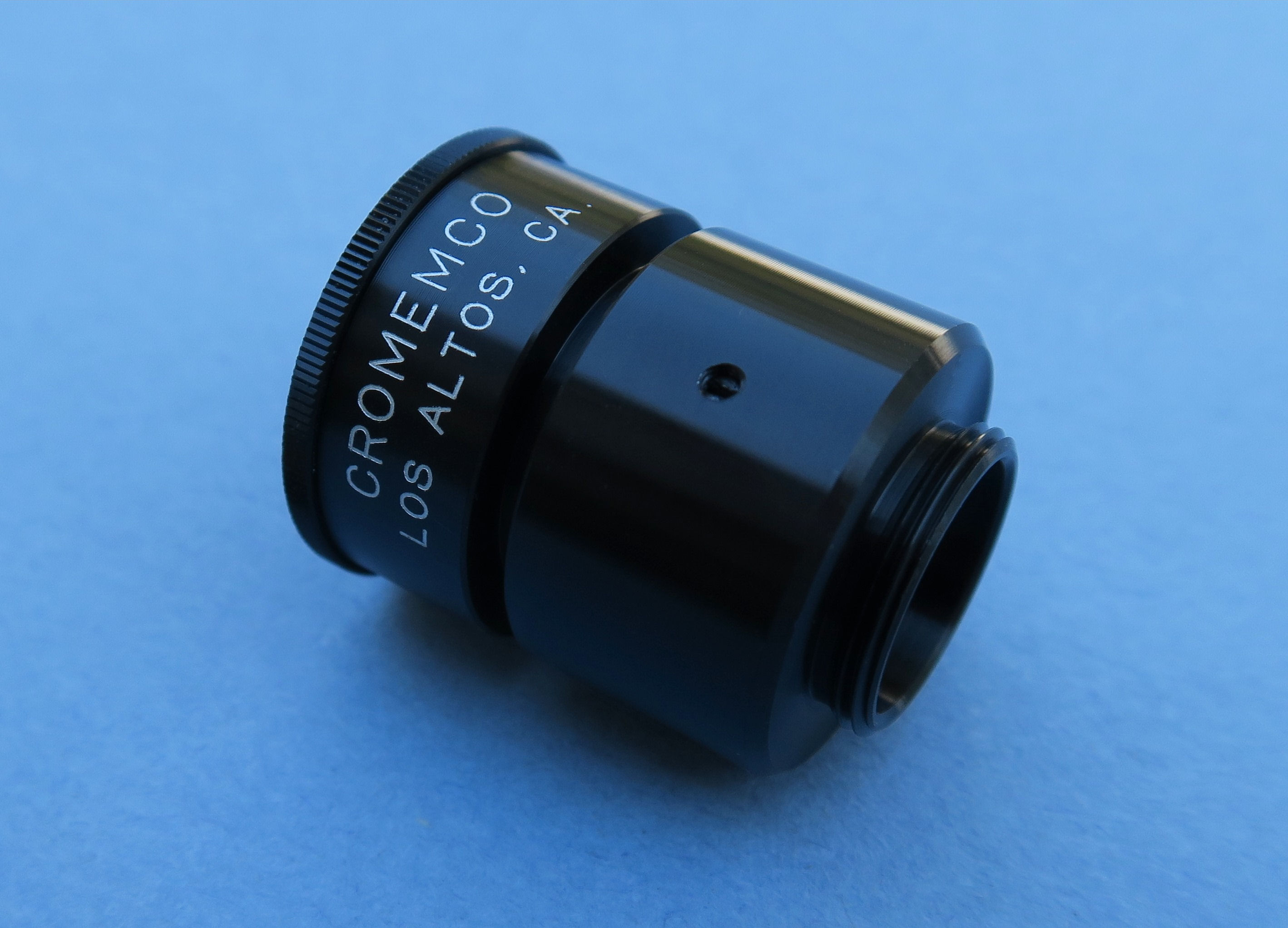 D-mount camera lens used on the Cromemco Cyclops digital camera. Focal length is 25mm and aperture is f2.8.